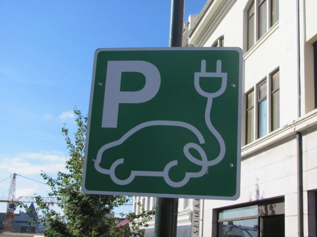 Road sign indicating a power station for electric cars